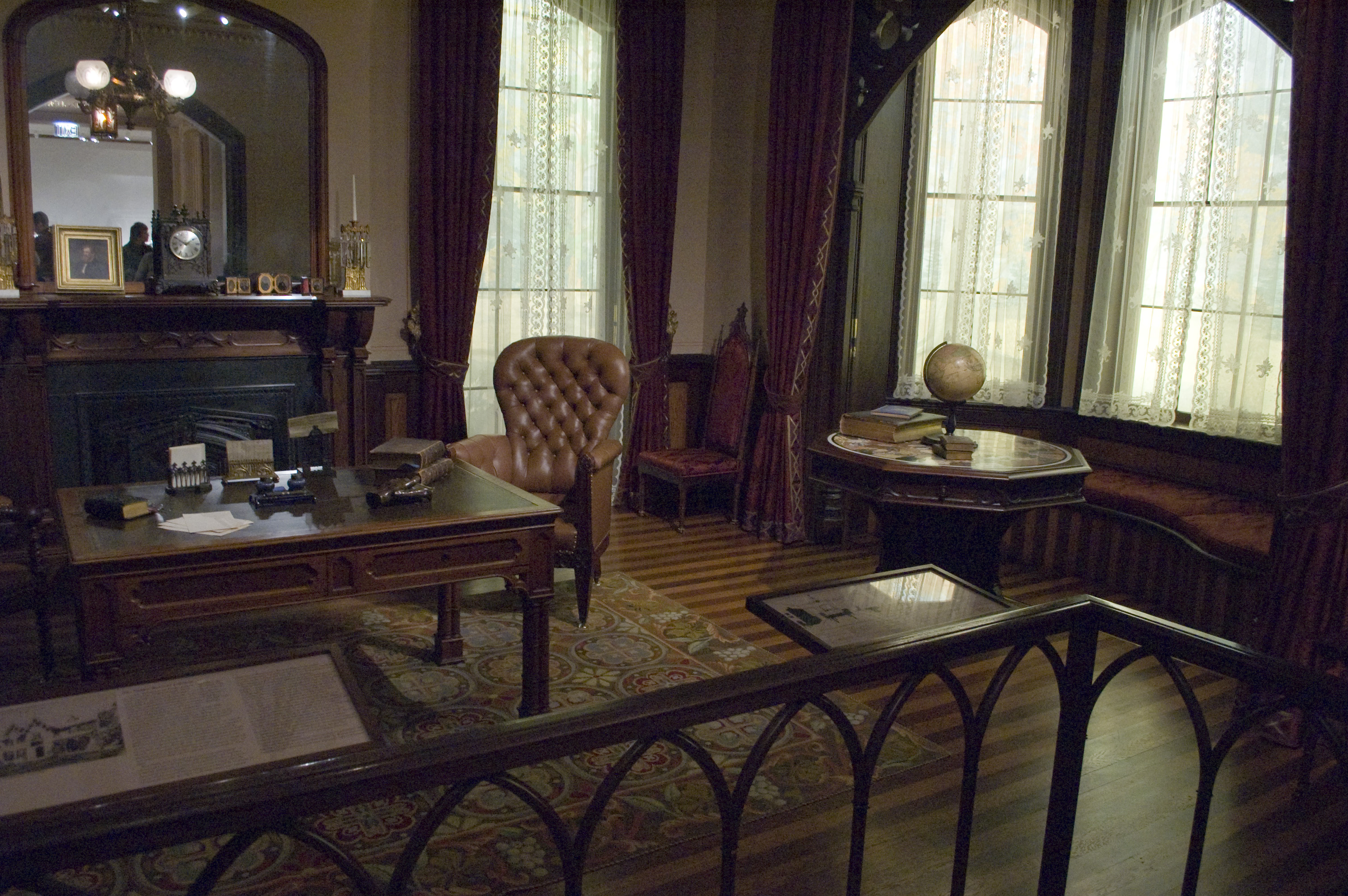 This period room is a Gothic Revival Library from Morningside, a villa built for Frederick Deming, president of the Union Bank of New York, in the Balmville section of Newburgh, NY. It has been removed to the Metropolitan Museum of Art.